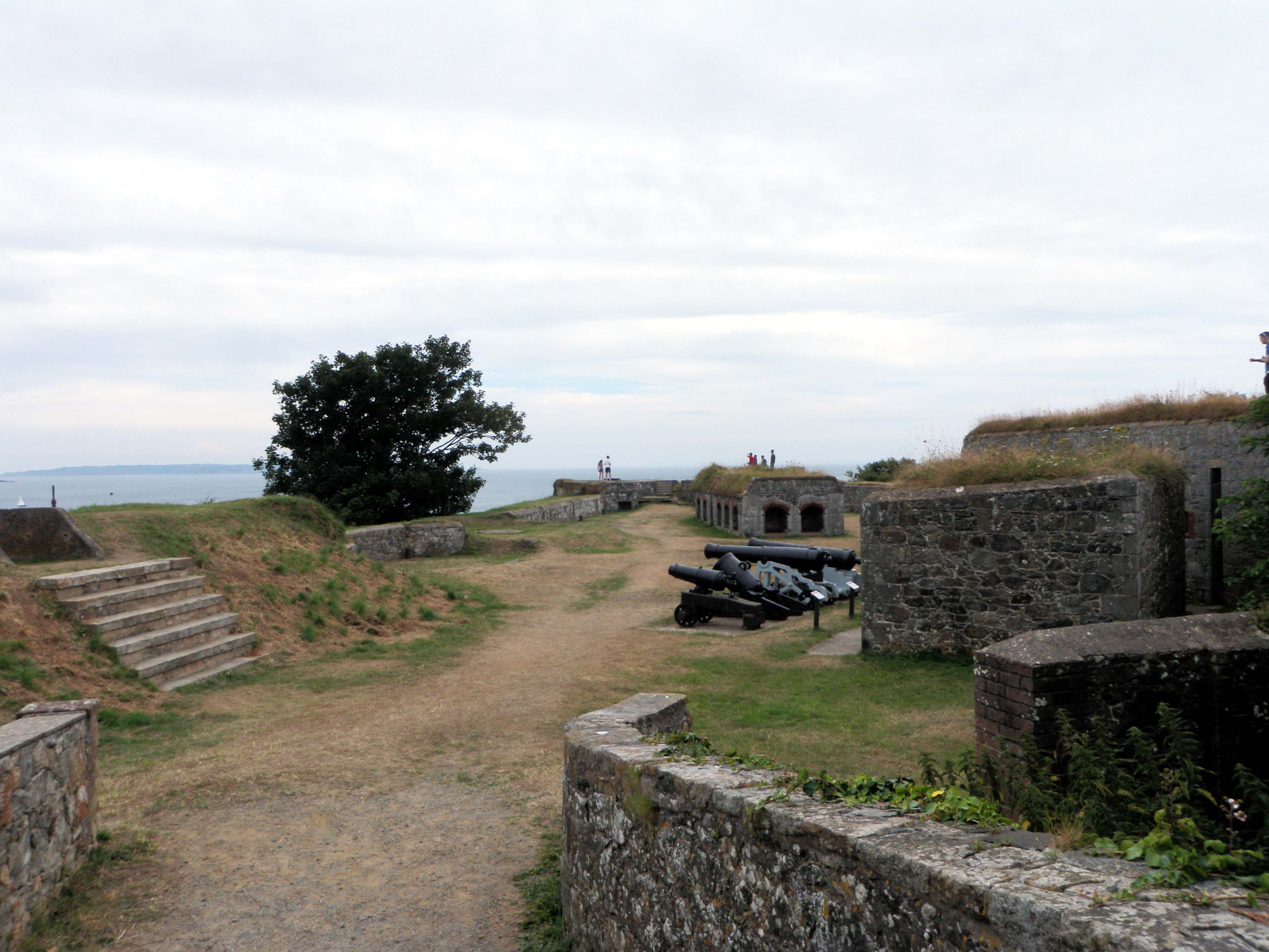 View of Clarence Battery at Fort George, Saint Peter Port, Guernsey.